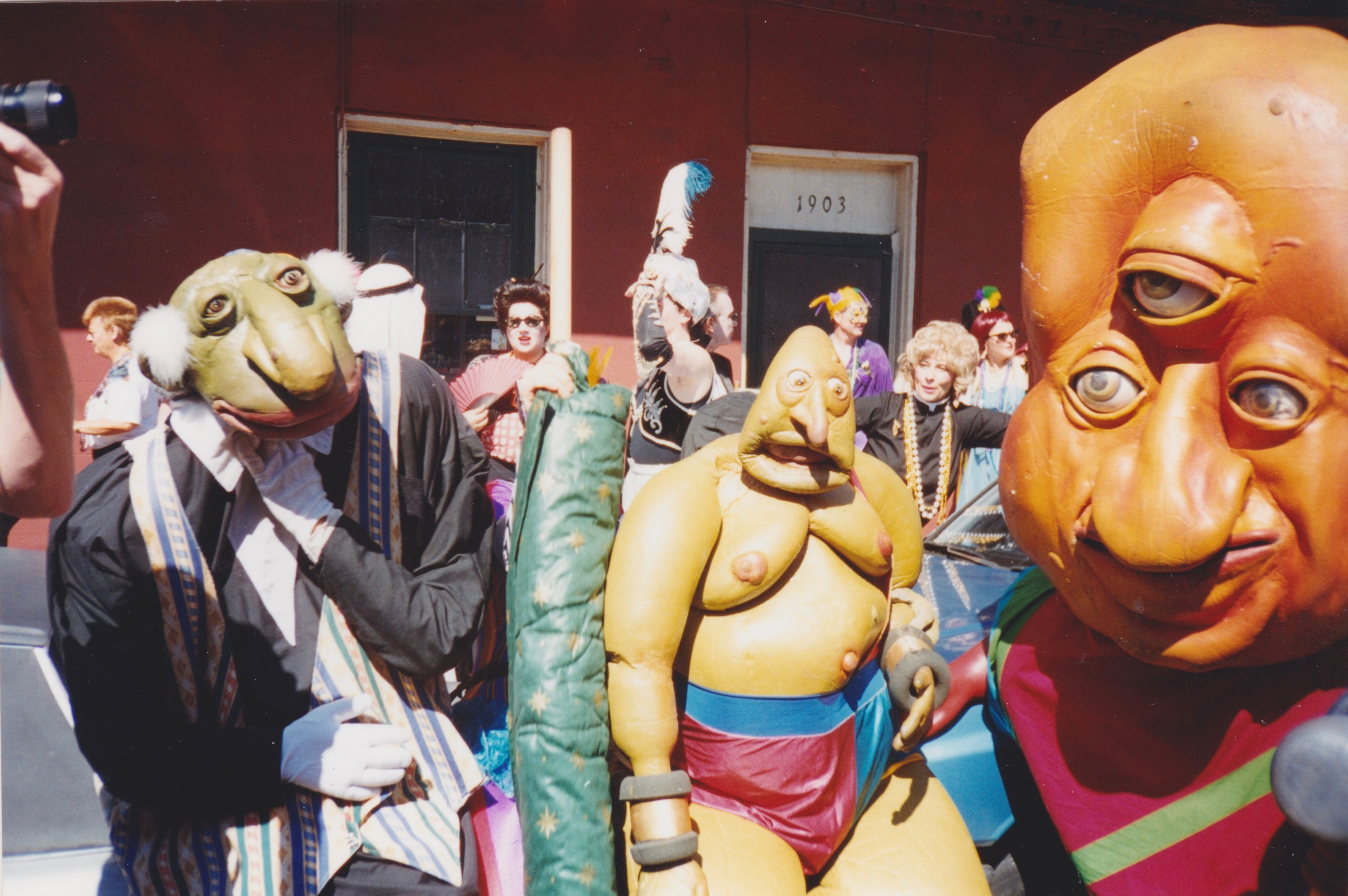 New Orleans Mardi Gras: Society of St. Anne revelers in unusually elaborate costumes. Photo by Infrogmation, Mardi Gras Day 1998